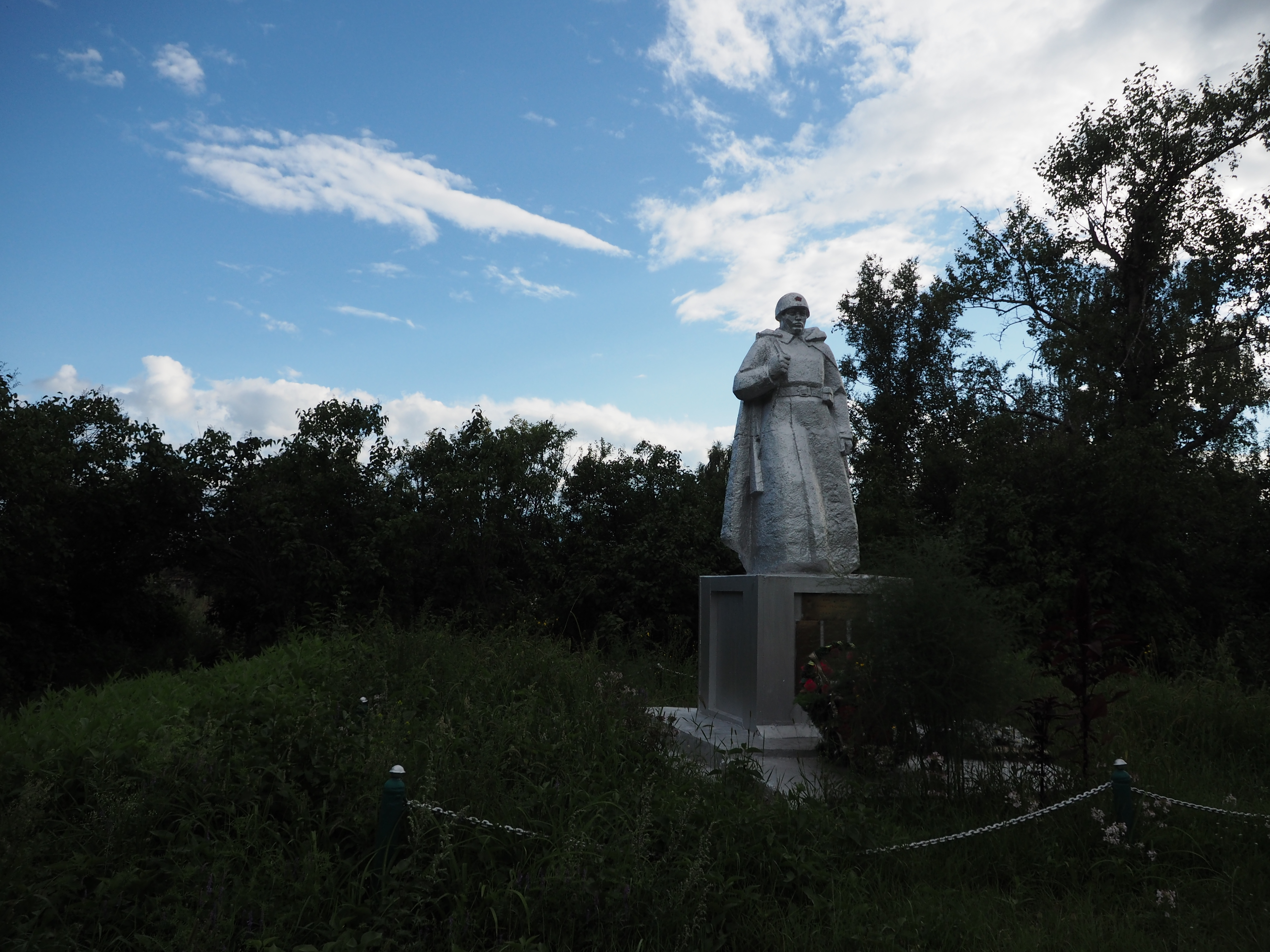 Monument of unnamed soldier